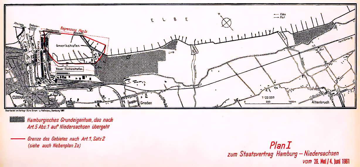 Location of the Amerika-Hafen according to the Cuxhaven-Vertrag